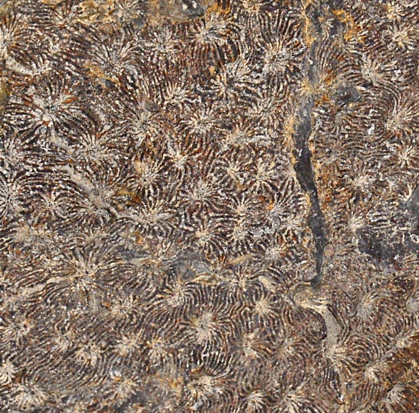 Cropped image of taxon in file name